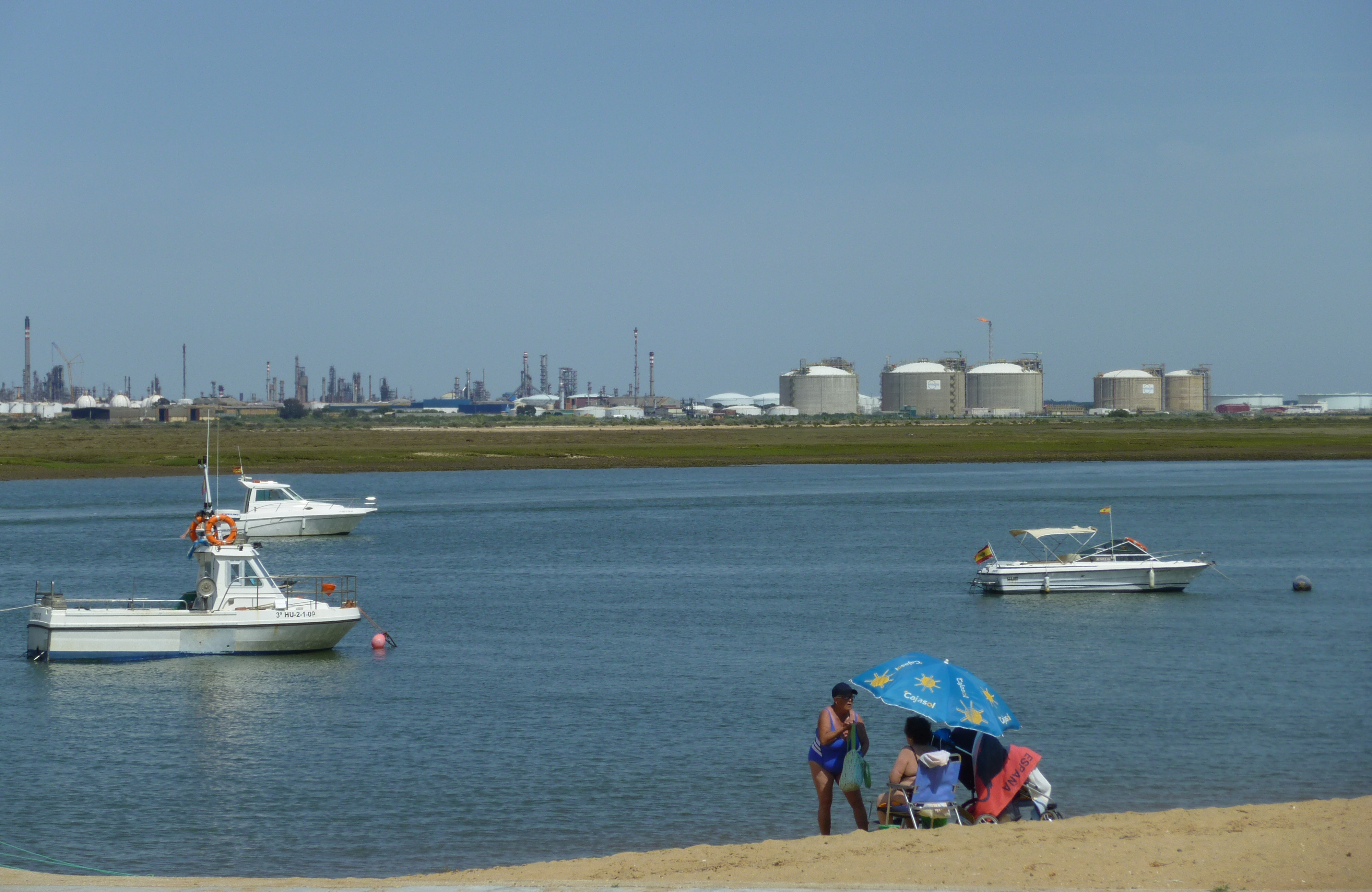 Beach and sport boats in Punta Umbría in front of the industrial scenery of La Rábita